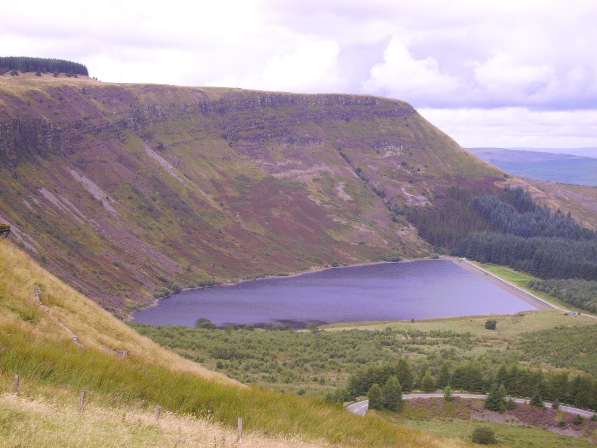 Craig y Llyn Reservoir, Rhigos, Cynon Valley, Rhondda Cynon Taff, Wales